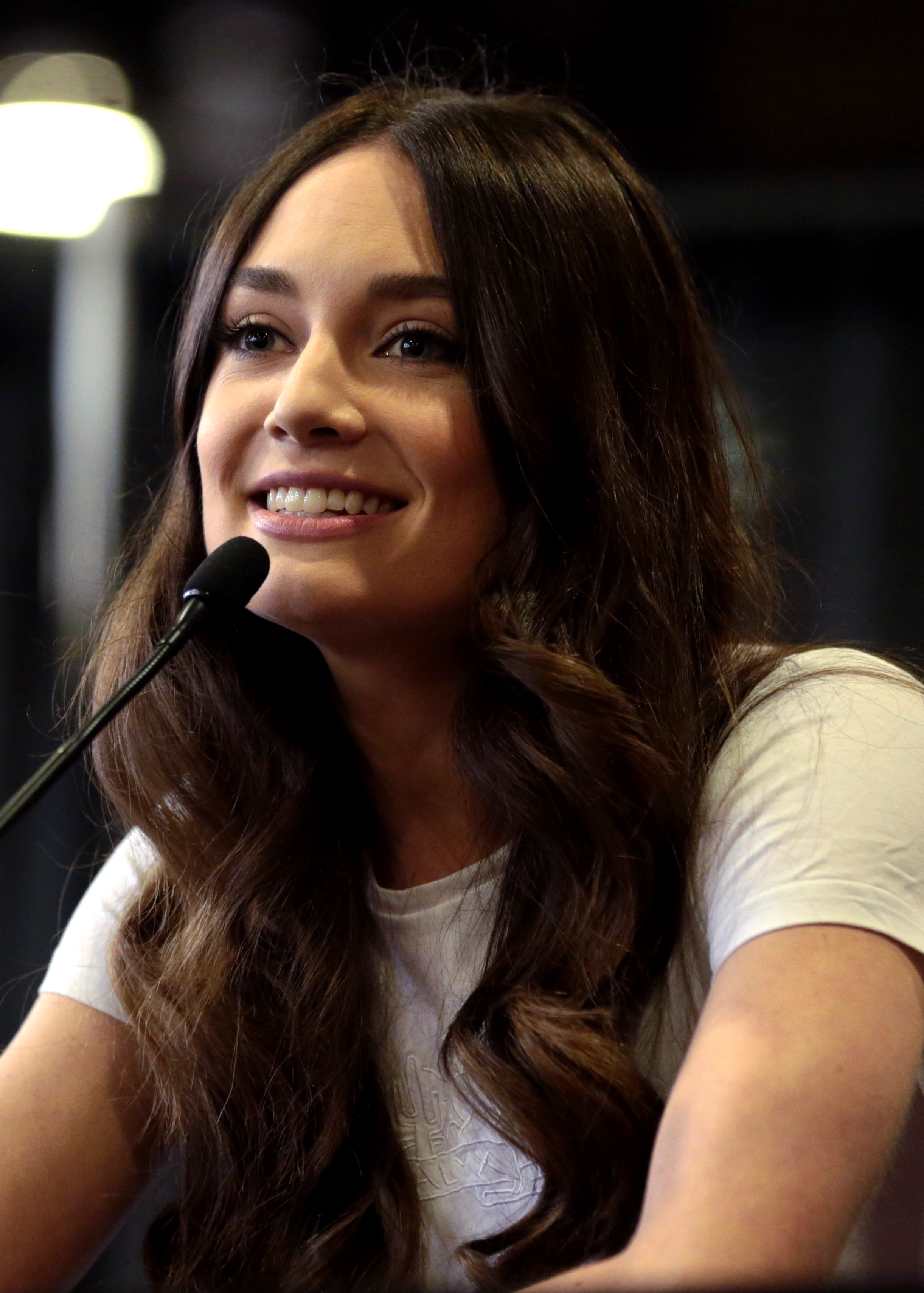 Mallory Jansen speaking at an event in Phoenix, Arizona.